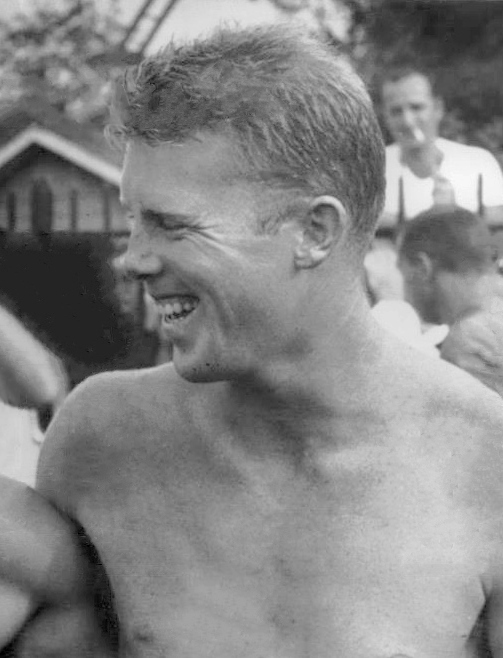 1960 Press Photo Sam Hall, Gary Tobian After Winning Berths On US Olympic Team